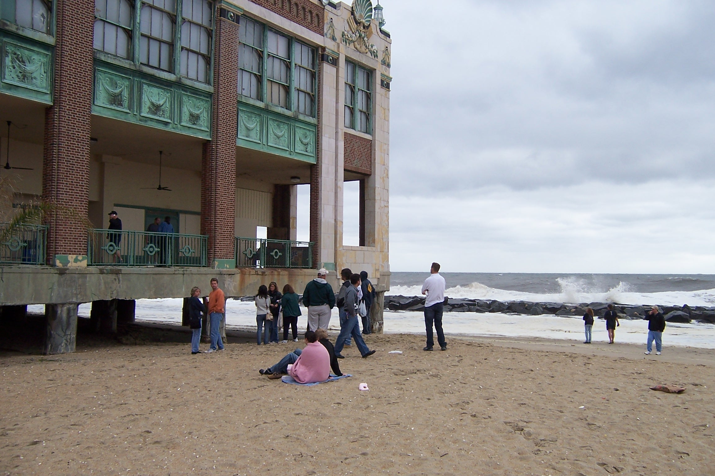 Asbury Park Convention Hall, side/rear view. Taken by me, 29 September 2004.